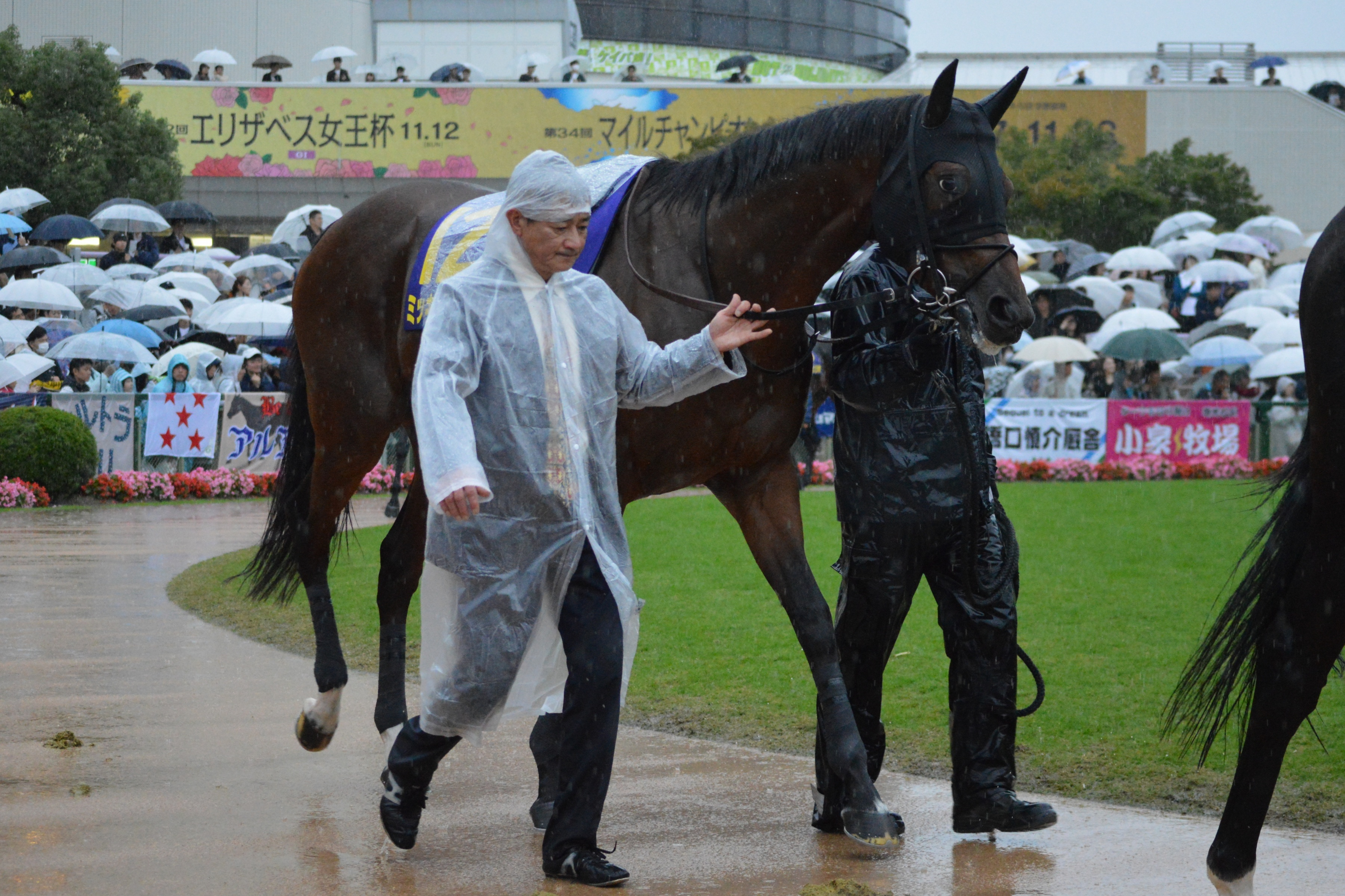 Japanese race horse Mikki Swallow at Kyoto racecourse. Kyoto (JPN) 22 Oct 2017 Kikuka Sho (Japanese St.Leger) (Grade 1) (3yo Colts & Fillies) (Turf) 1m7f Soft RankHorse NameOddsAgeWgtTrainerJockey1stKiseki (JPN)7/2FC39-0Katsuhiko SumiiMirco Demuro2ndClincher (JPN)30/1C39-0Hiroshi MiyamotoYusuke Fujioka3rdPopocatepetl (JPN)43/1C39-0Yasuo TomomichiRyuji Wada4th , 5th , 7th-18th/omission6thMikki Swallow (JPN)42/10C39-0Takanori KikuzawaNorihiro Yokoyama